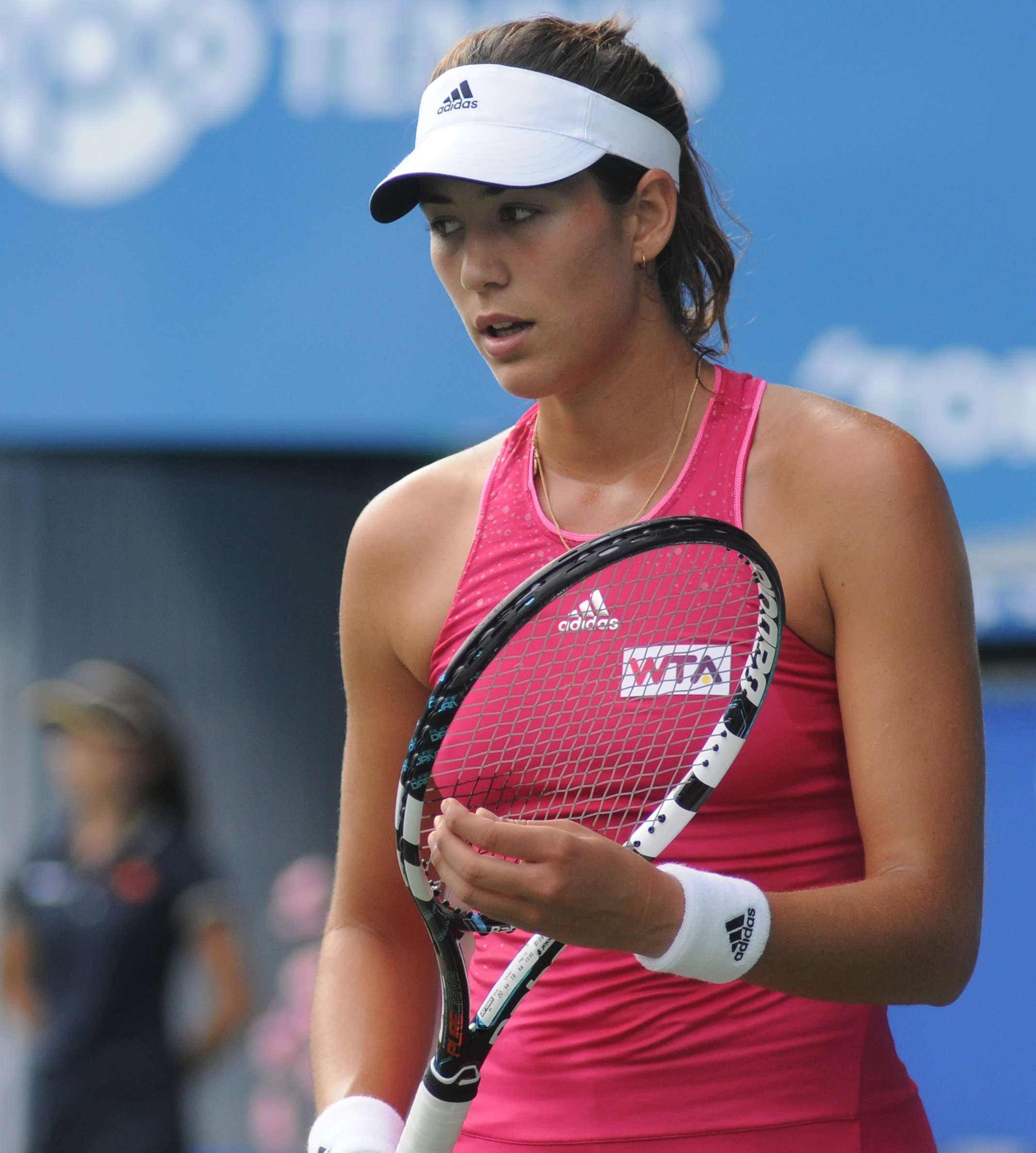 Garbiñe Muguruza at the 2014 Toray Pan Pacific Open